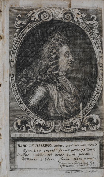 Baron Johann Otto von Hellwig (1654-1698). Physician and alchemist. Frontispice from his work Arcana majora (1712)